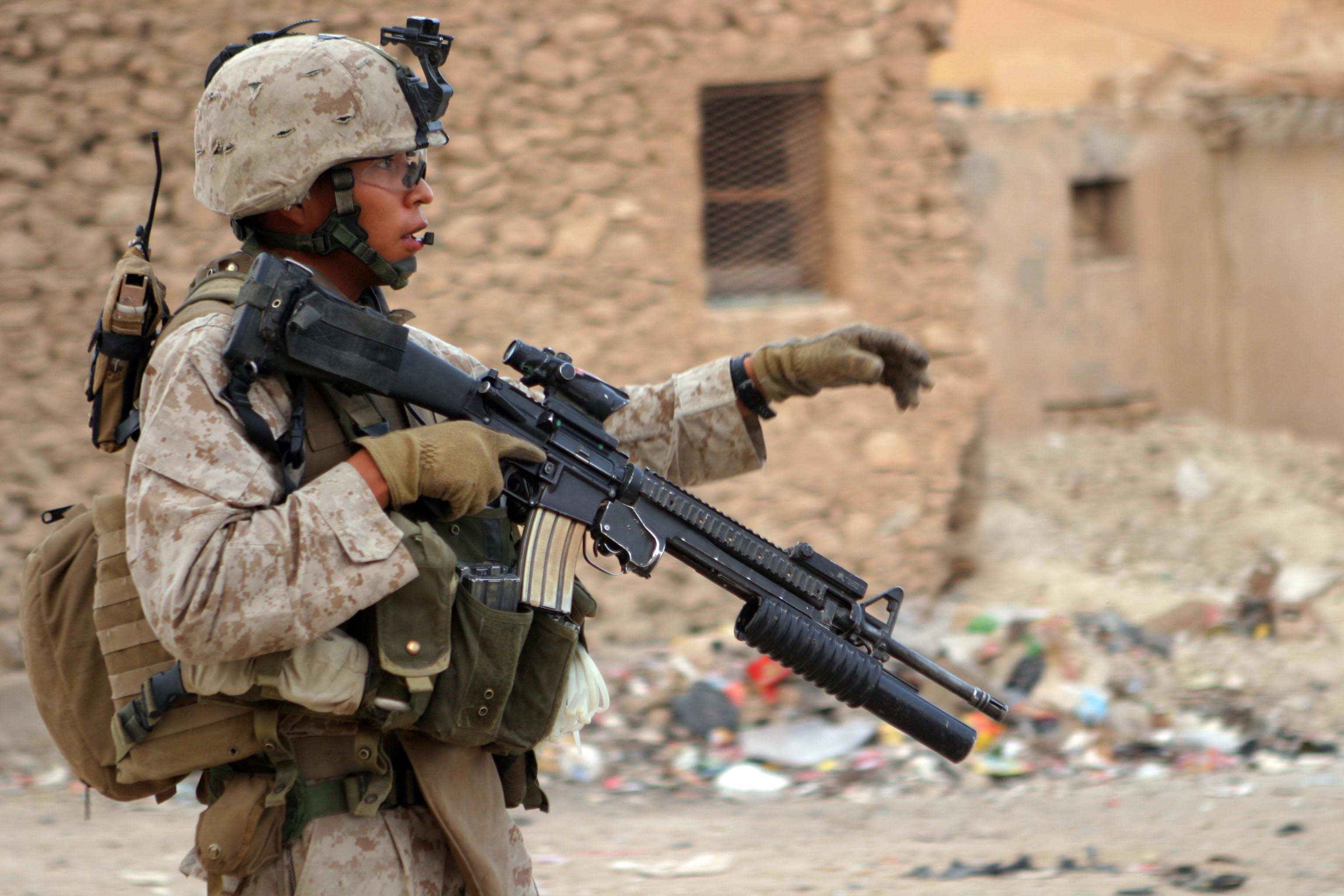 Marine Lance Cpl. Jason L. Paul patrols through the streets of Haqlaniyah, Iraq, on Oct. 22, 2006. Paul is attached to 2nd Battalion, 3rd Marine Regiment, Regimental Combat Team 7, I Marine Expeditionary Force (Forward).